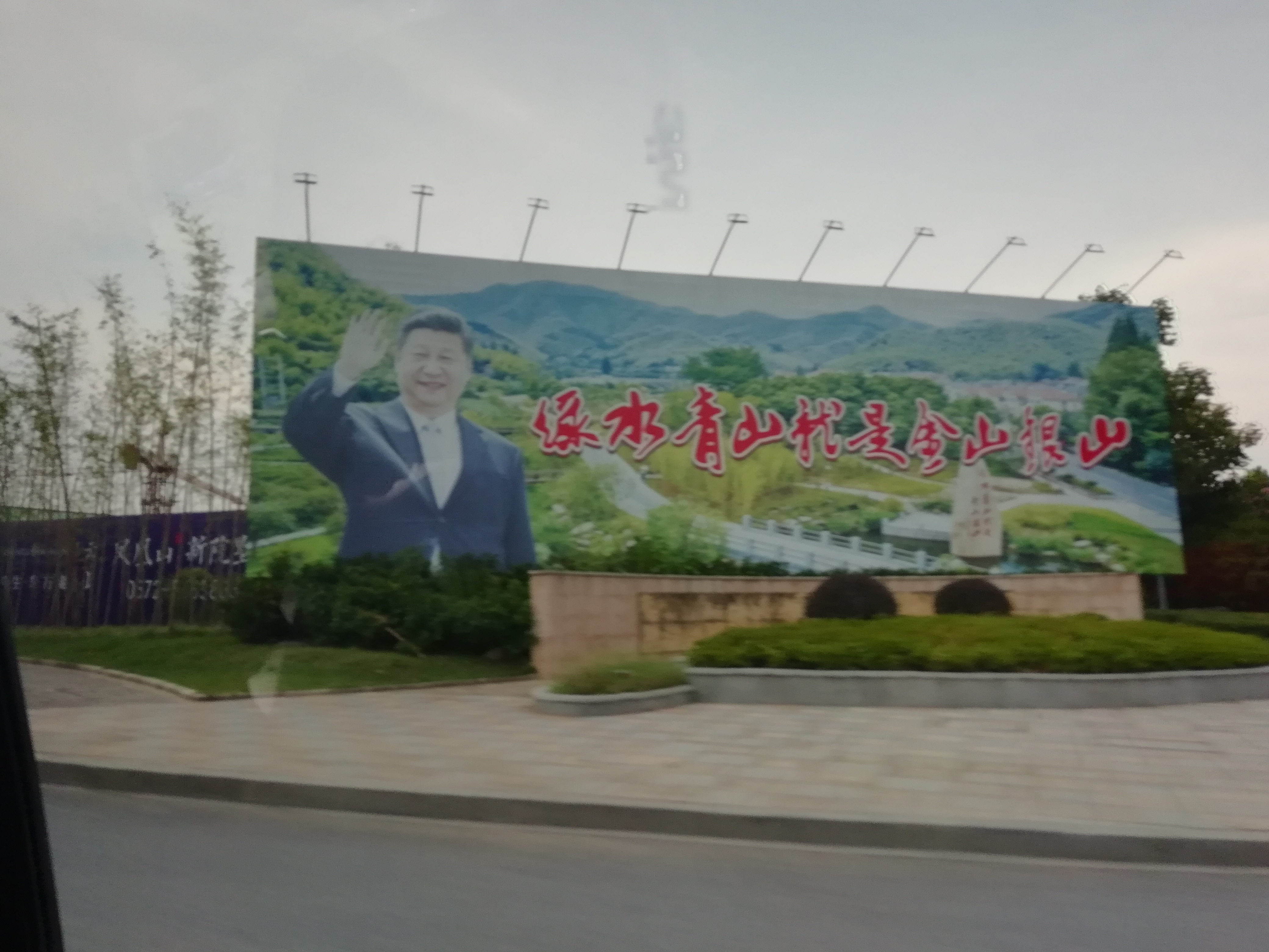 A "Green Water and Green Mountain is Gold Mountain and Silver Mountain" slogan, located on the road near Anji Exit of S14 Hangzhou-Changxing Expressway. This is a political concept which created by Xi Jinping. 中文（中国大陆）: 杭长高速安吉出口附近的“绿水青山就是金山银山”标语。此为习近平在浙江省湖州市安吉县考察时提出的科学论。